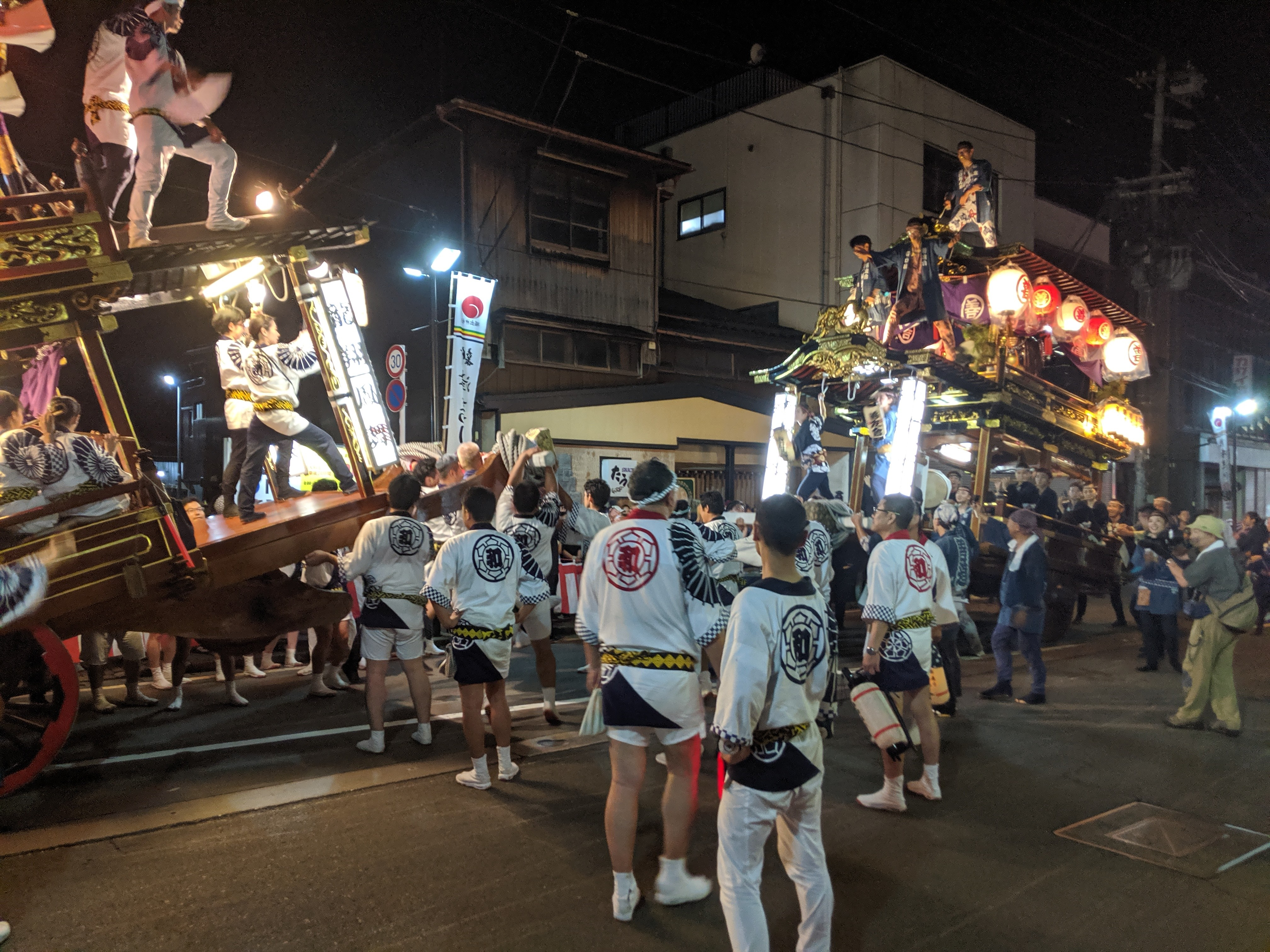 Annual Yatai Matsuri festival in Niitsu